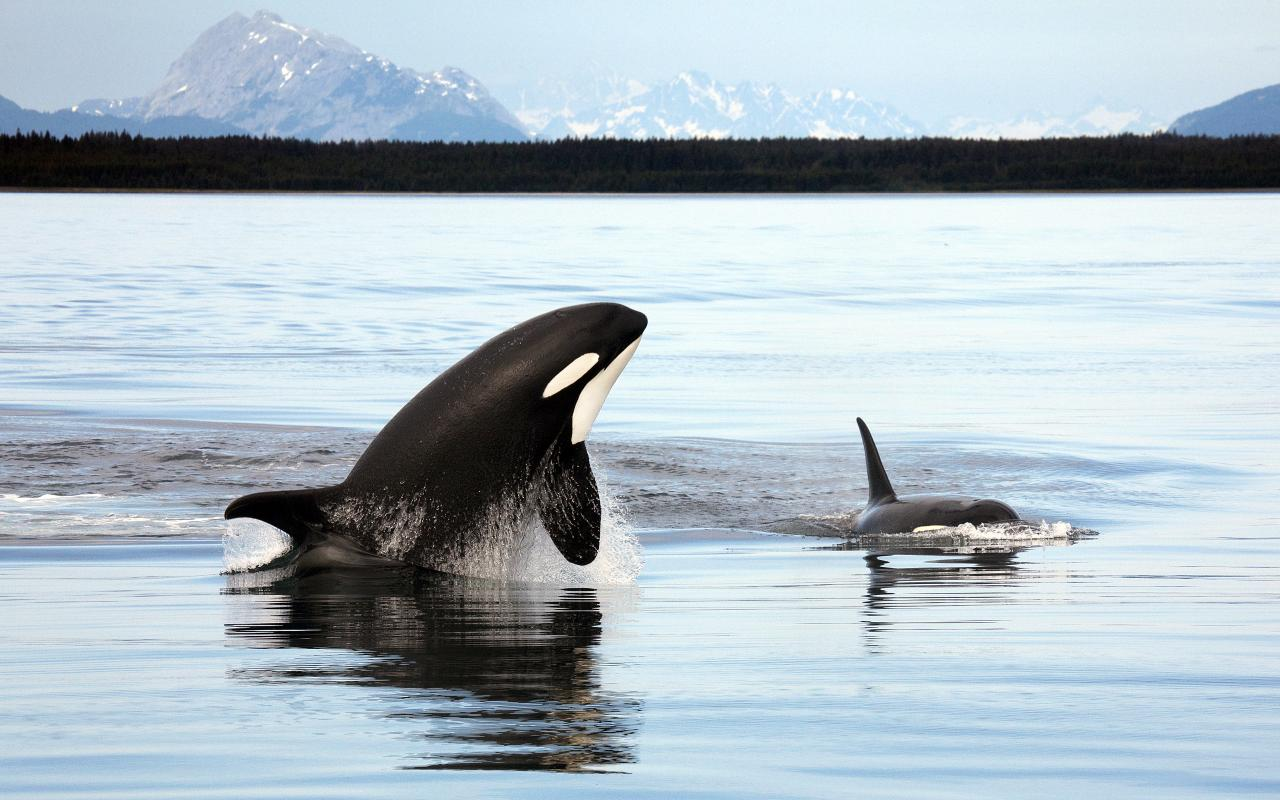 Orca (Orcinus orca) in City and Borough of Haines, Alaska, United States.